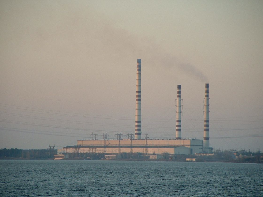 Konakovo GRES (State area power plant). View from the Konakovo town main beach. Also seen Volga river.